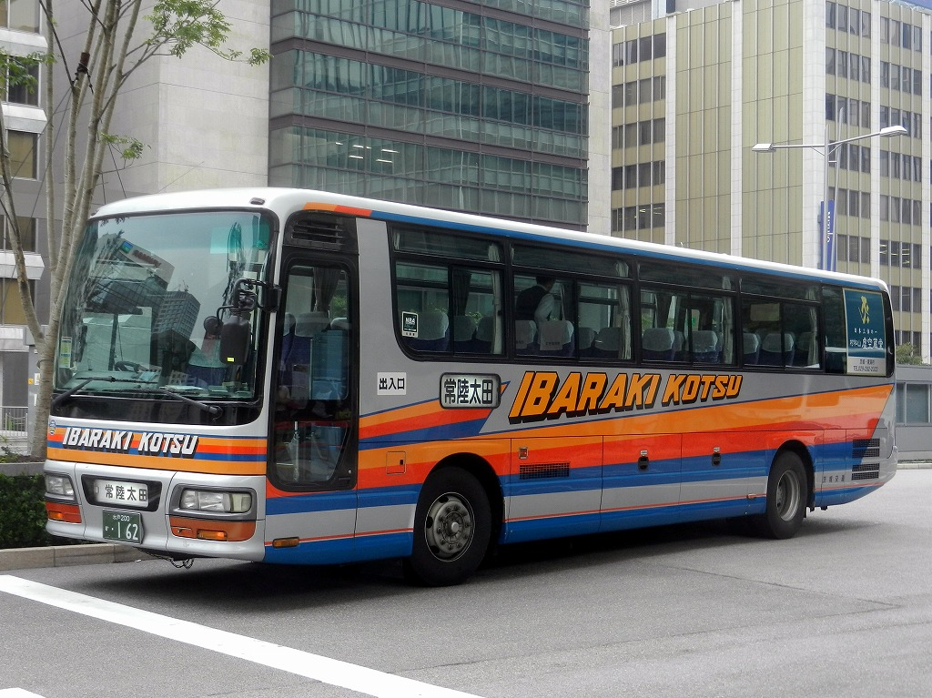 Ibaraki Kotsu Isuzu Gala (KL-LV781R2)highwaybus "Hitachi-Ota gou"